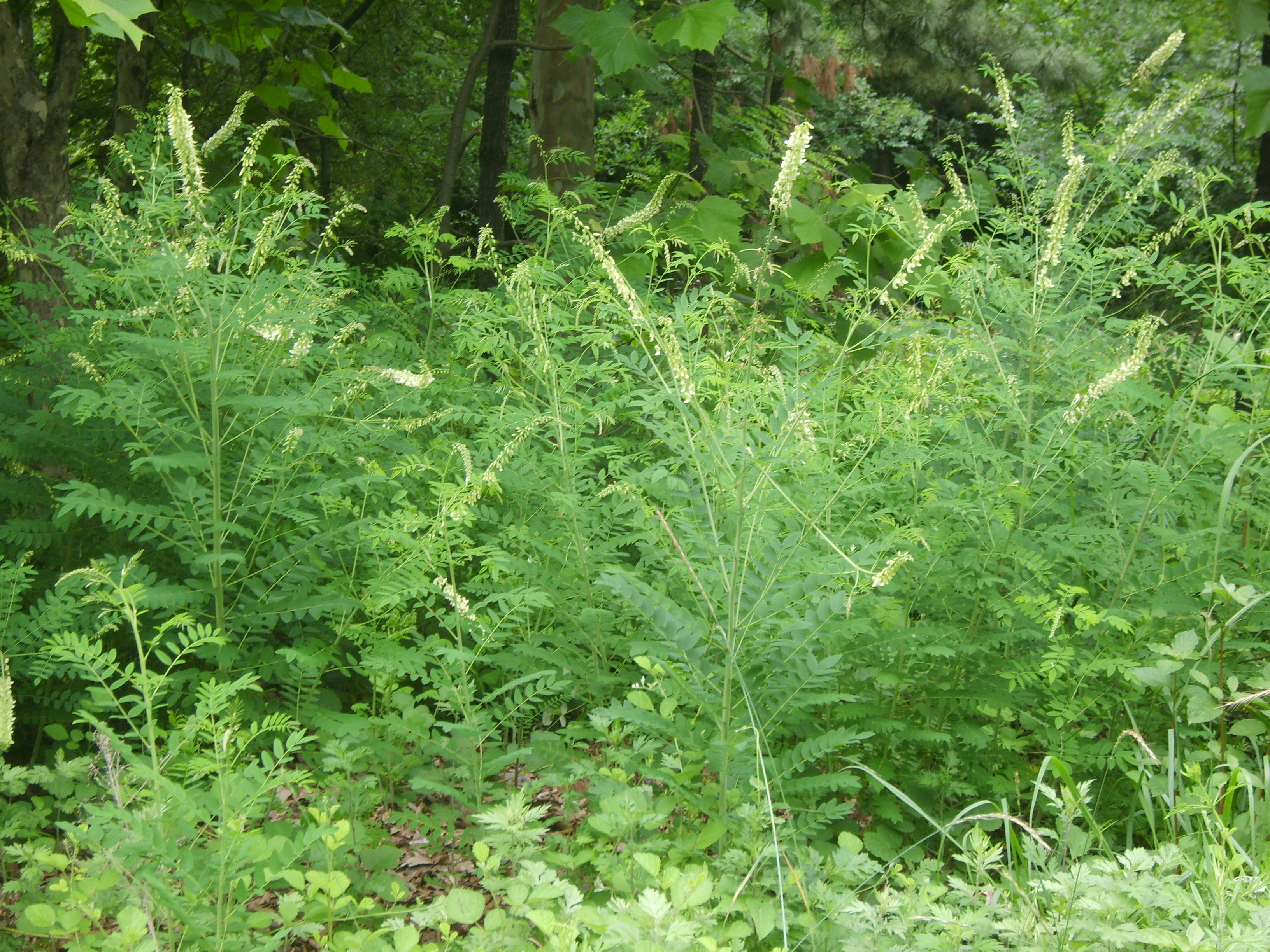 Sophora flavescens in Incheon, Korea